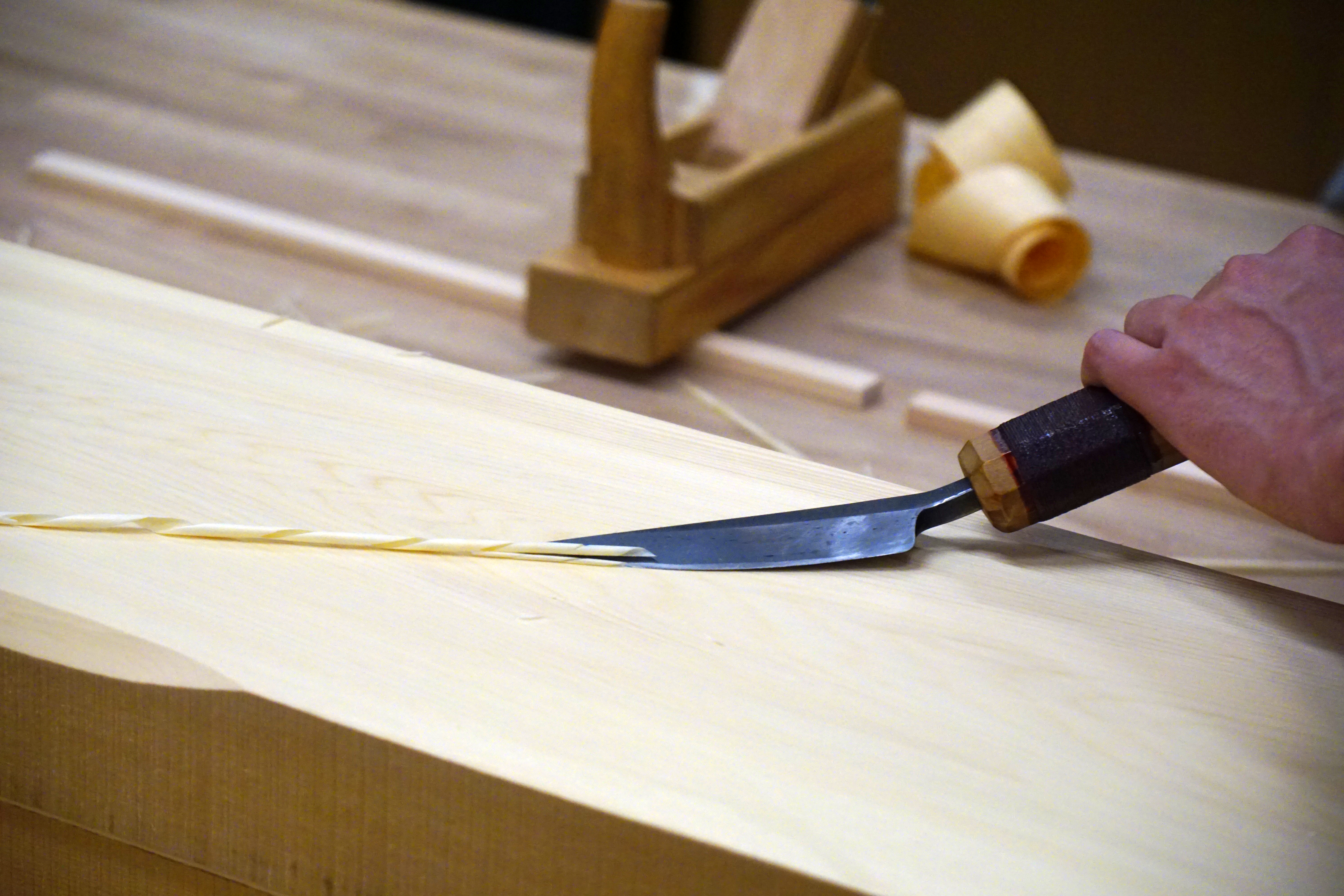 Takenaka Carpentry Tools Museum in Kobe, Hyogo prefecture, Japan.